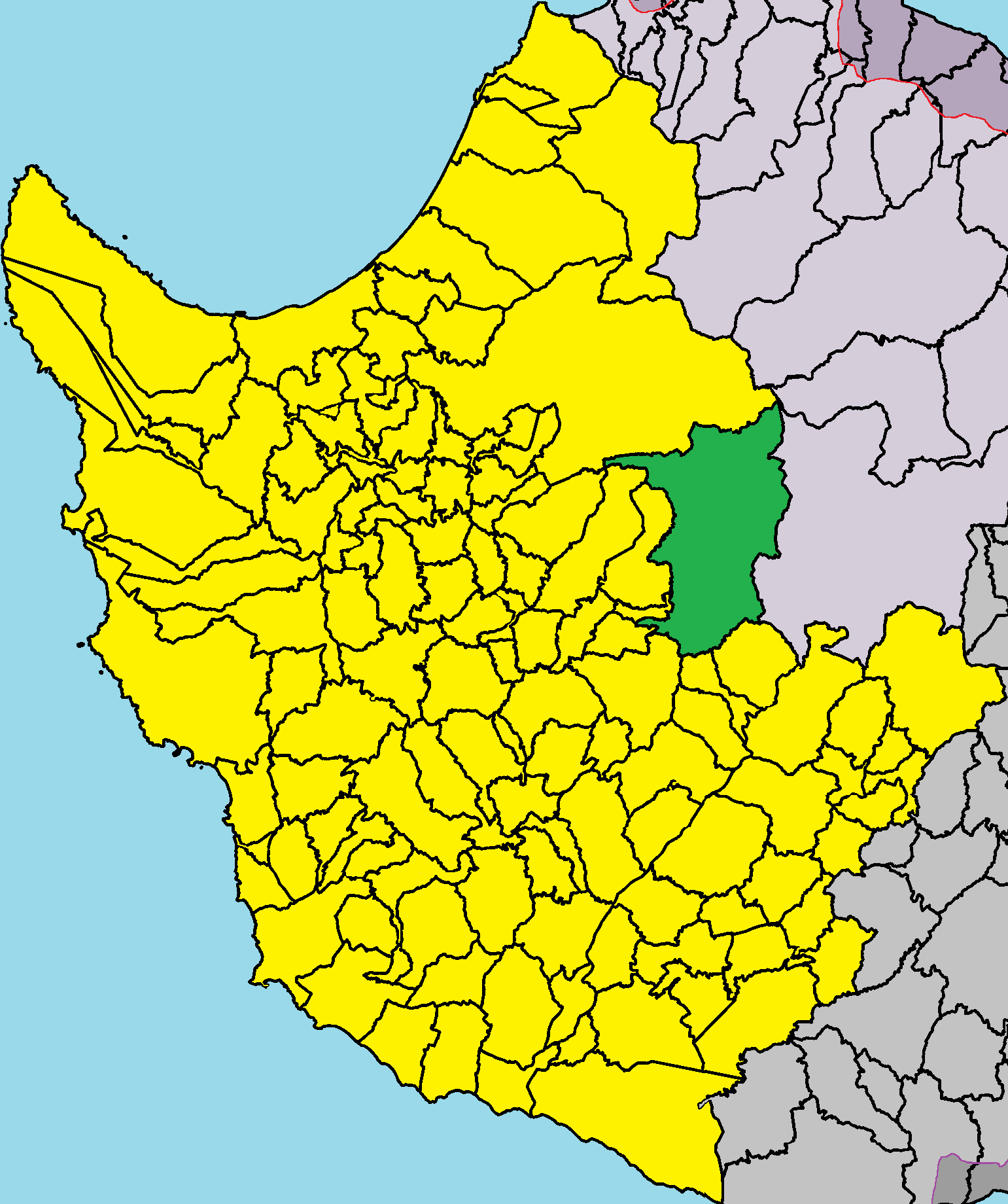 Pano Panagia in Paphos District.